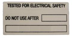 Picture of a Electrical Health and Safety label for Portable Appliances